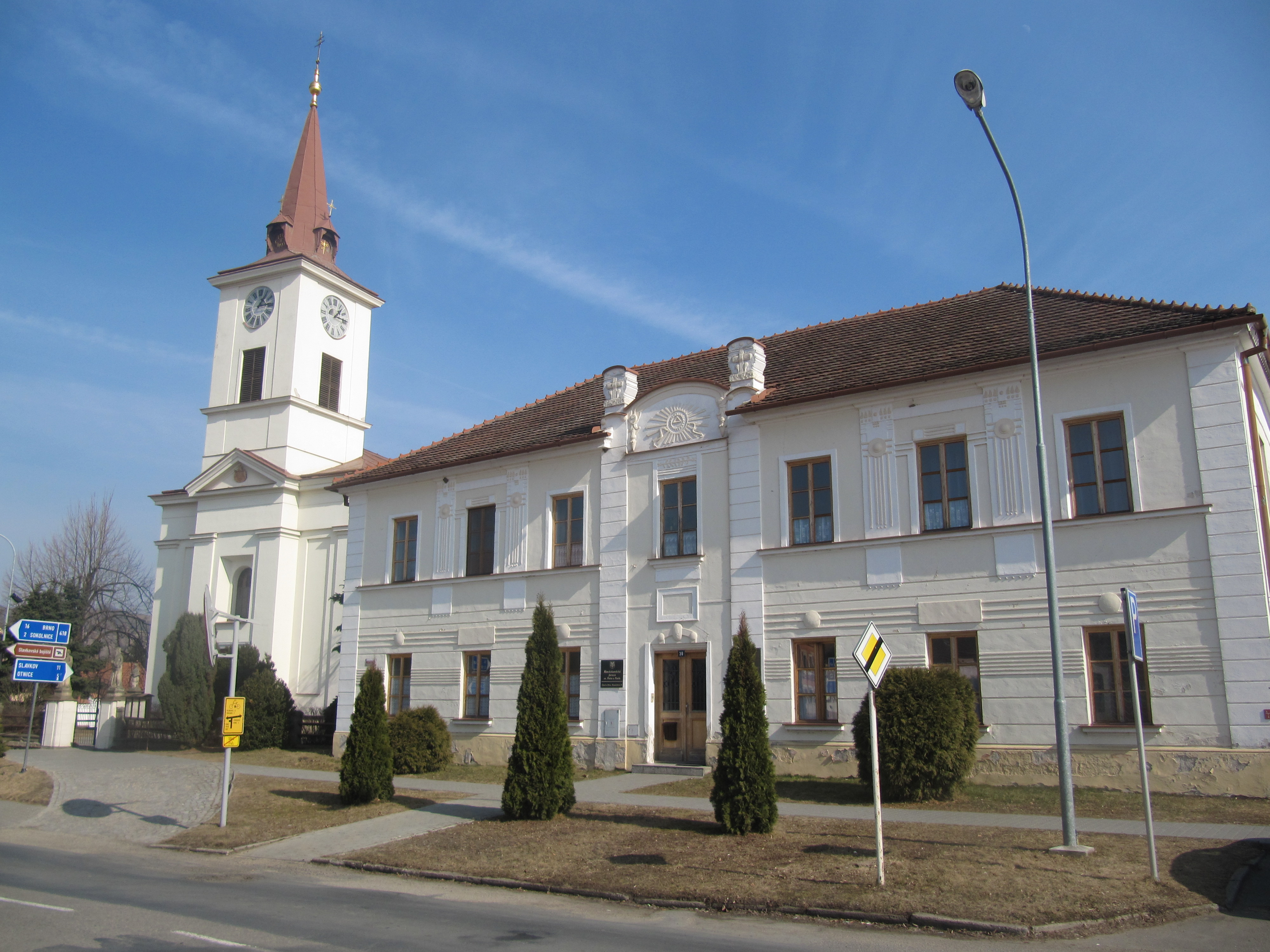 Újezd u Brna in Brno-Country District, Czech Republic. St. Peter and Paul-church and rectory.